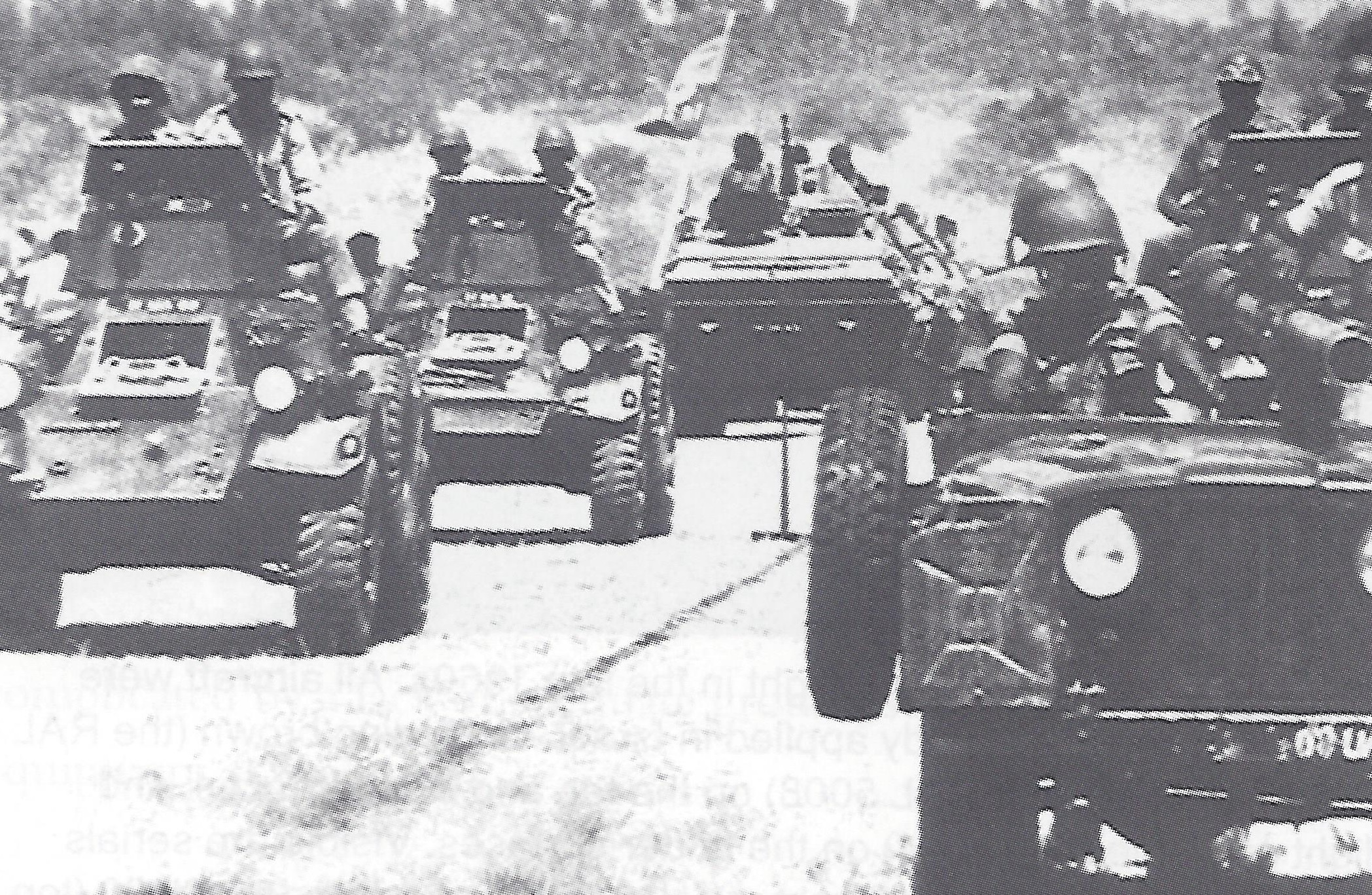 Ferret armoured cars and jeeps lead a parade of OT-64 APCs in Uganda during the 1960s. The jeep on the right is mounting a recoilless rifle.